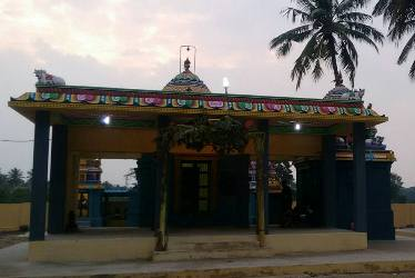 Arichandrapuramchandramoulisvarartemple அரிச்சந்திரபுரம்சௌந்தரமௌலீஸ்வரர்கோயில்